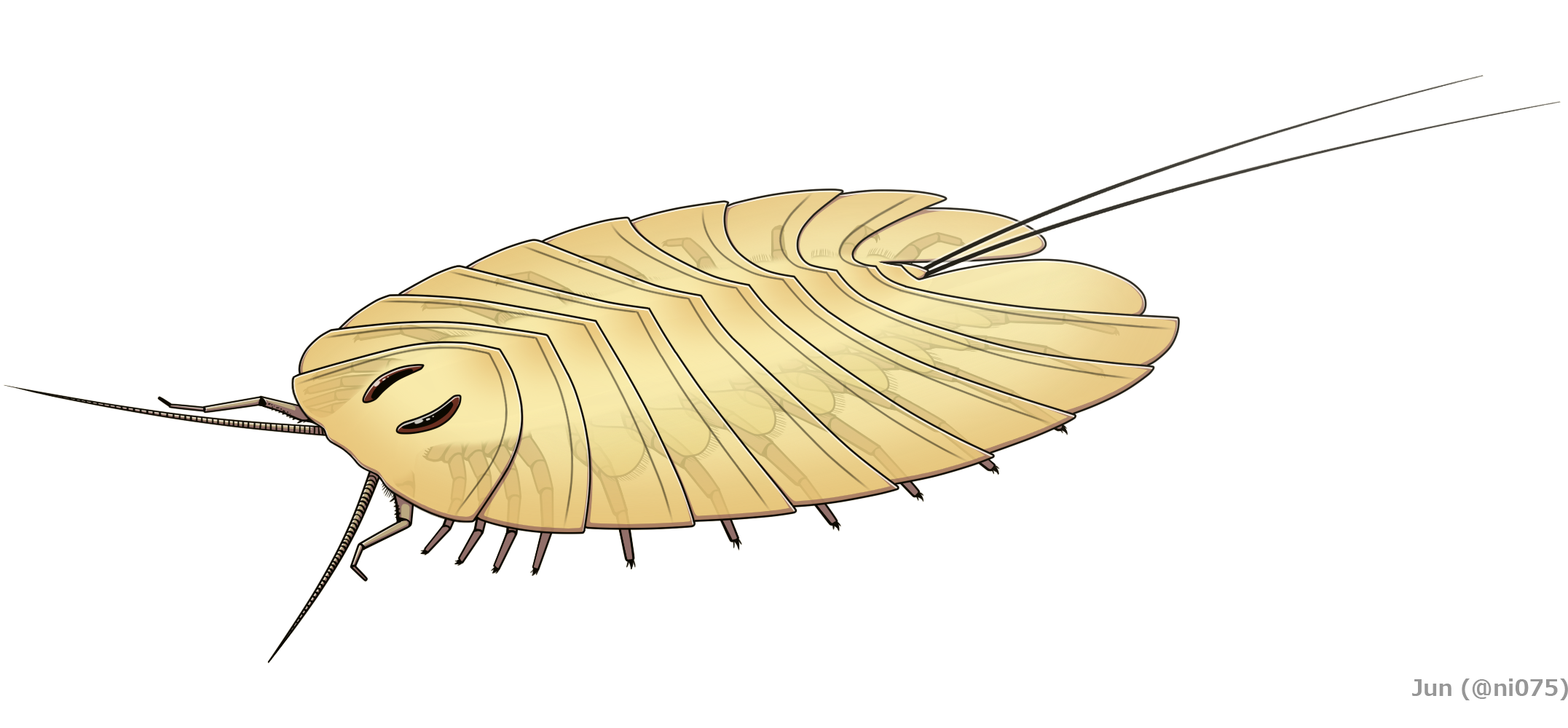 Reconstruction of Cheloniellon calmani, a devonian cheloniellid arthropod (Artiopoda).